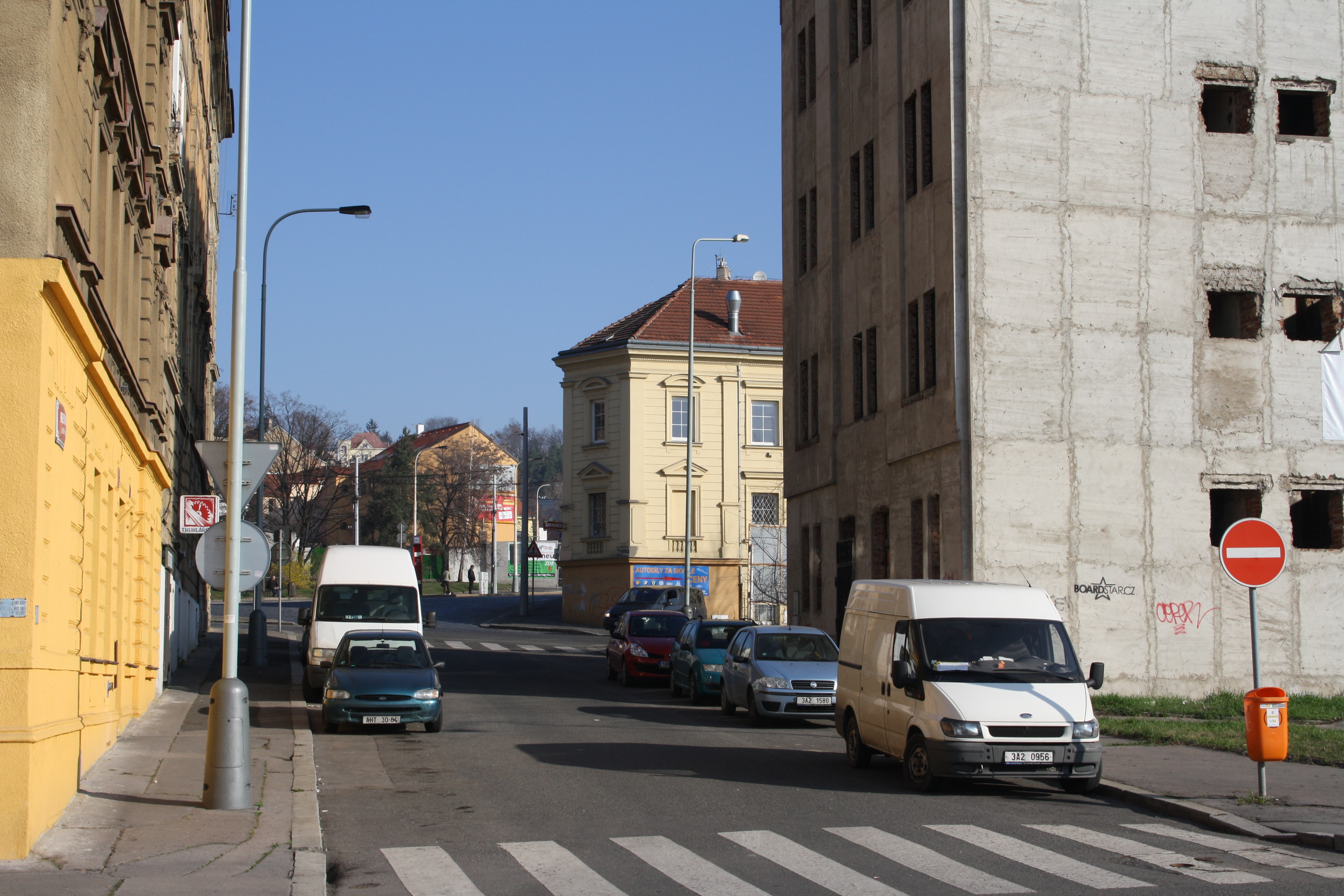 Hejtmánkova street, Libeň, Praha, Czech republic